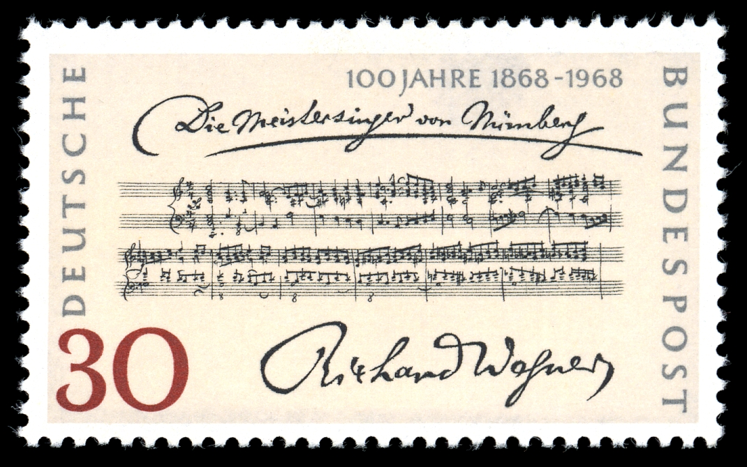 Stamp of Deutsche Bundespost from 1968, 100th anniversary of the premiere "Die Meistersinger von Nürnberg"